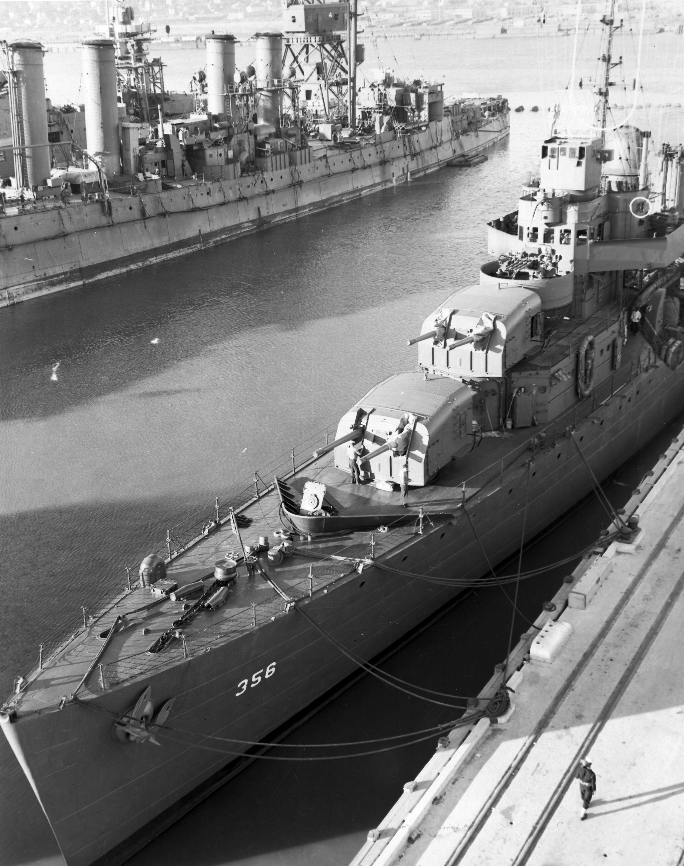 The U.S. Navy destroyer USS Porter (DD-356) at the Mare Island Naval Shipyard, California (USA), on 10 July 1942. An Omaha-class light cruiser is visible to the left, most probalby USS Raleigh (CL-7), which was at Mare Island from 1 March to July 1942.